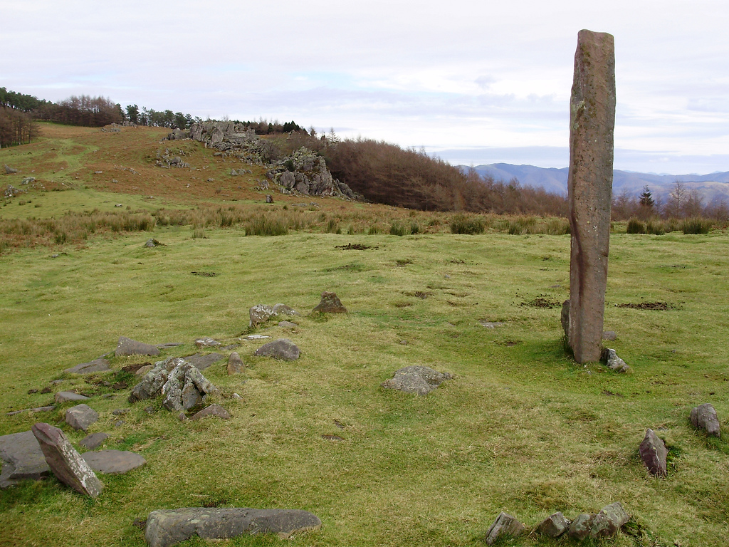 Eteneta's menhir. Adarra mountain. Gipuzkoa, Basque Country